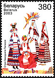 Costumes of The West Polesie.